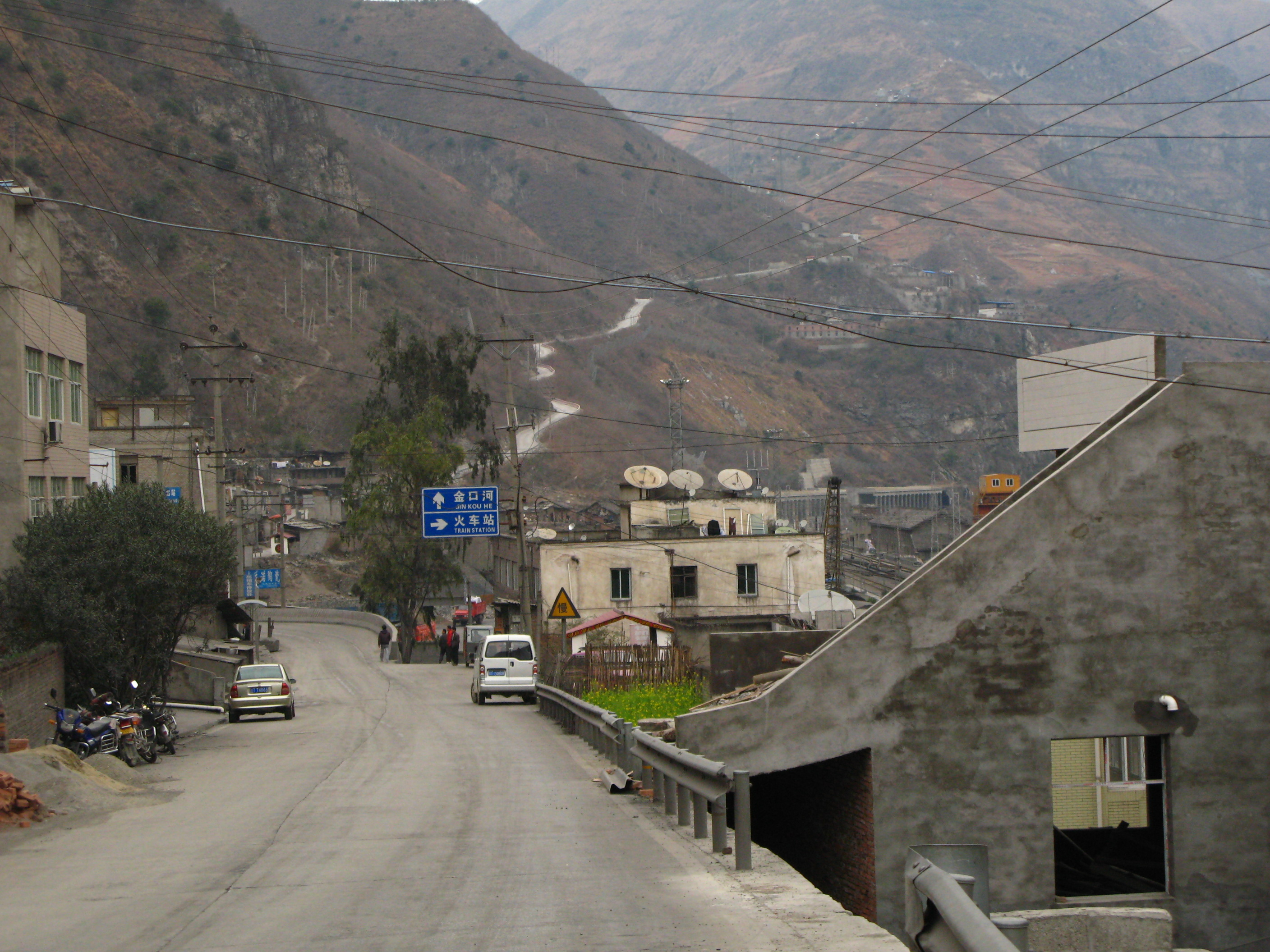 Wusihe Town in Hanyuan County, Sichuan, China